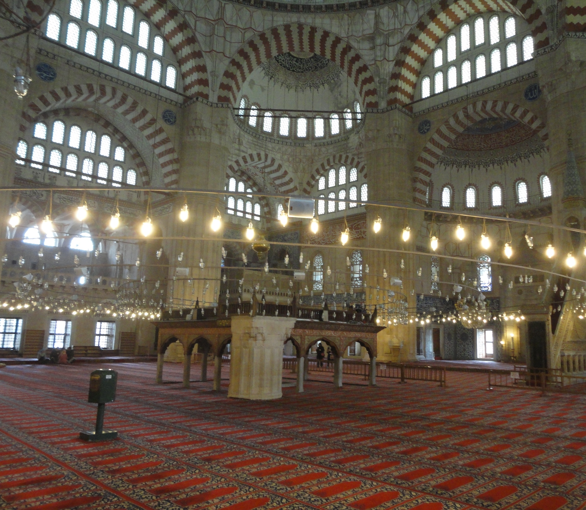 Selimiye Mosque, Edirne, Turkey. From inside of the Mosque.